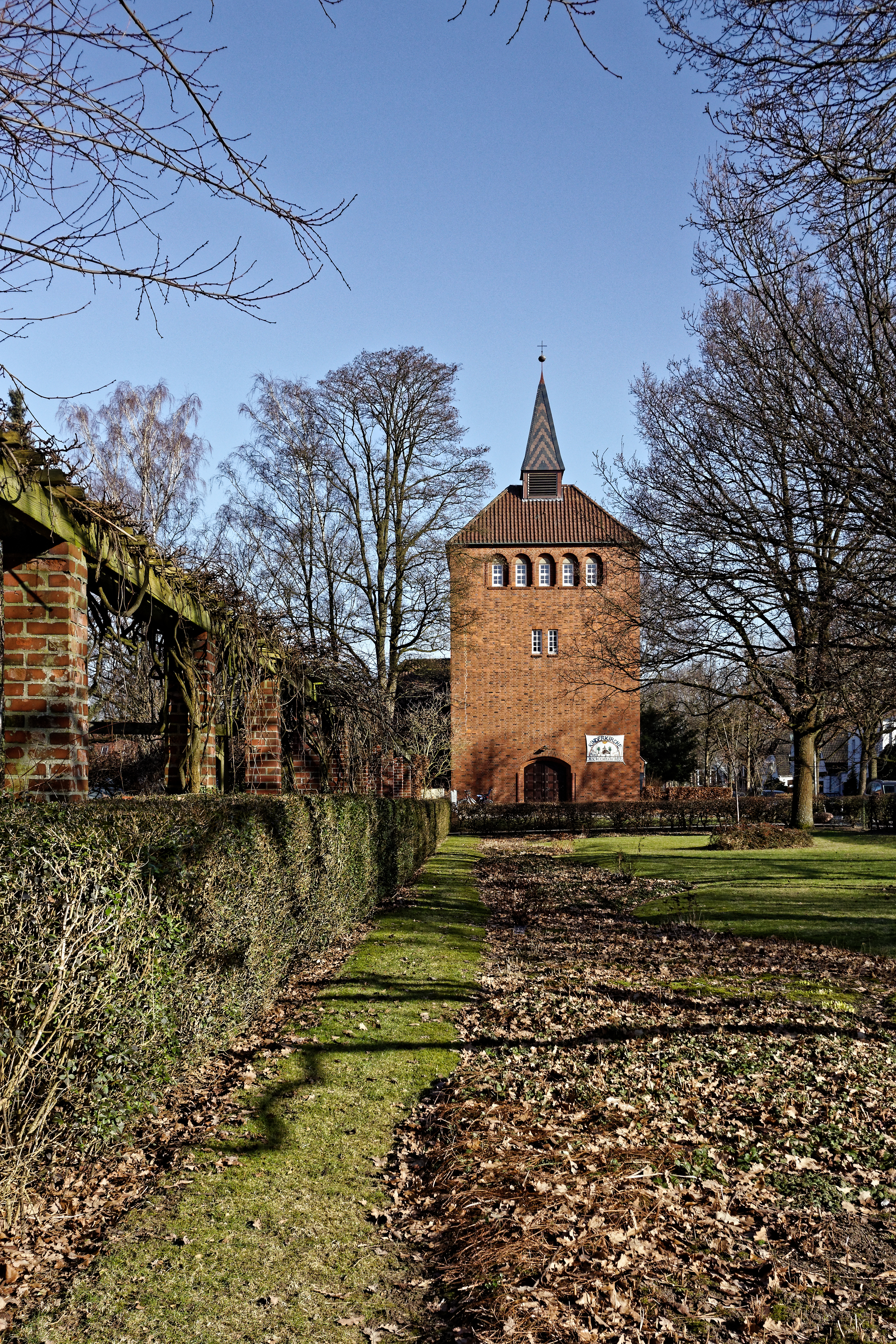 Mary Magdalene Church in Hamburg-Ohlsdorf, western view